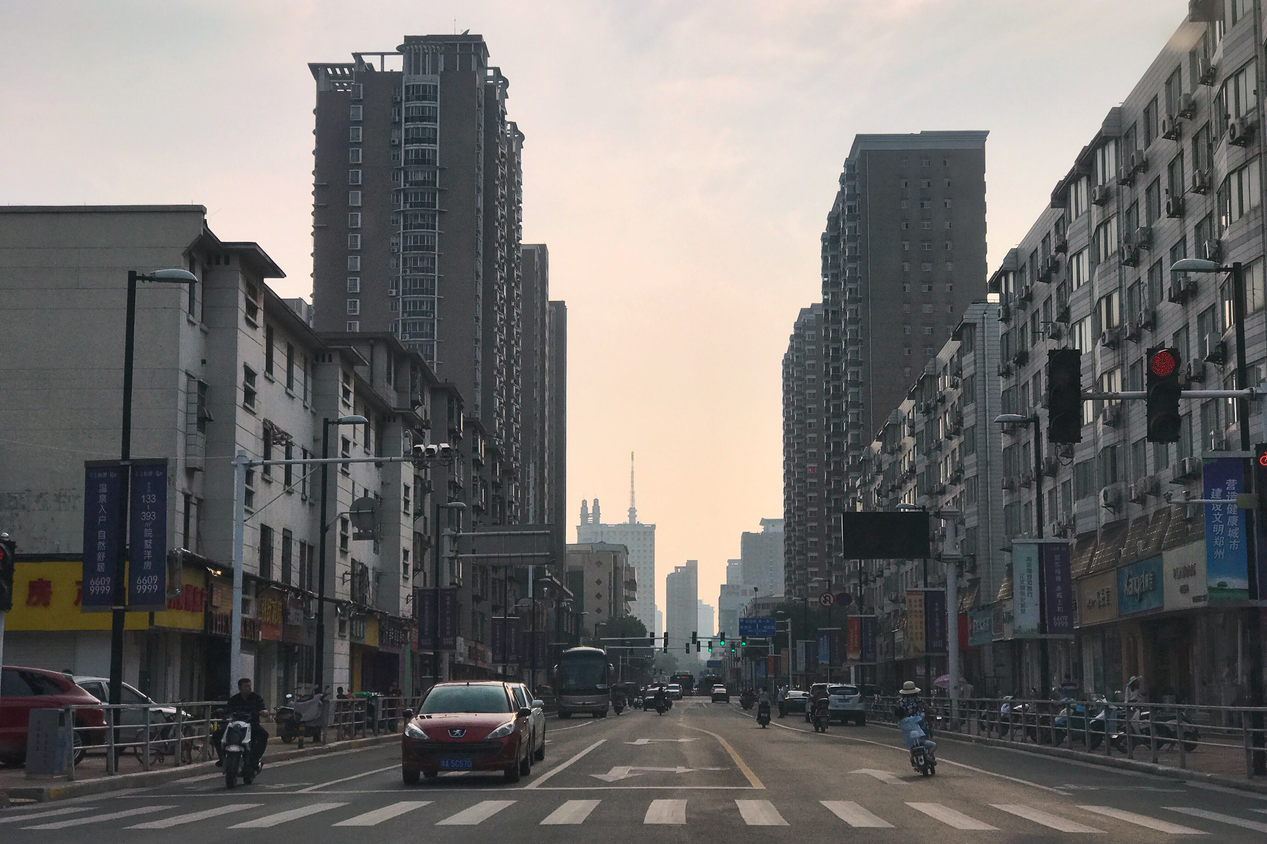 Streetscape of Wei'er Road in Zhengzhou, China